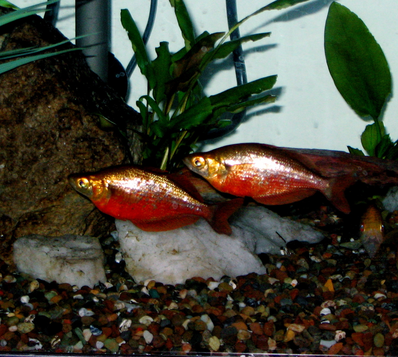 Red rainbowfish (Glossolepis incisus) in an aquarium